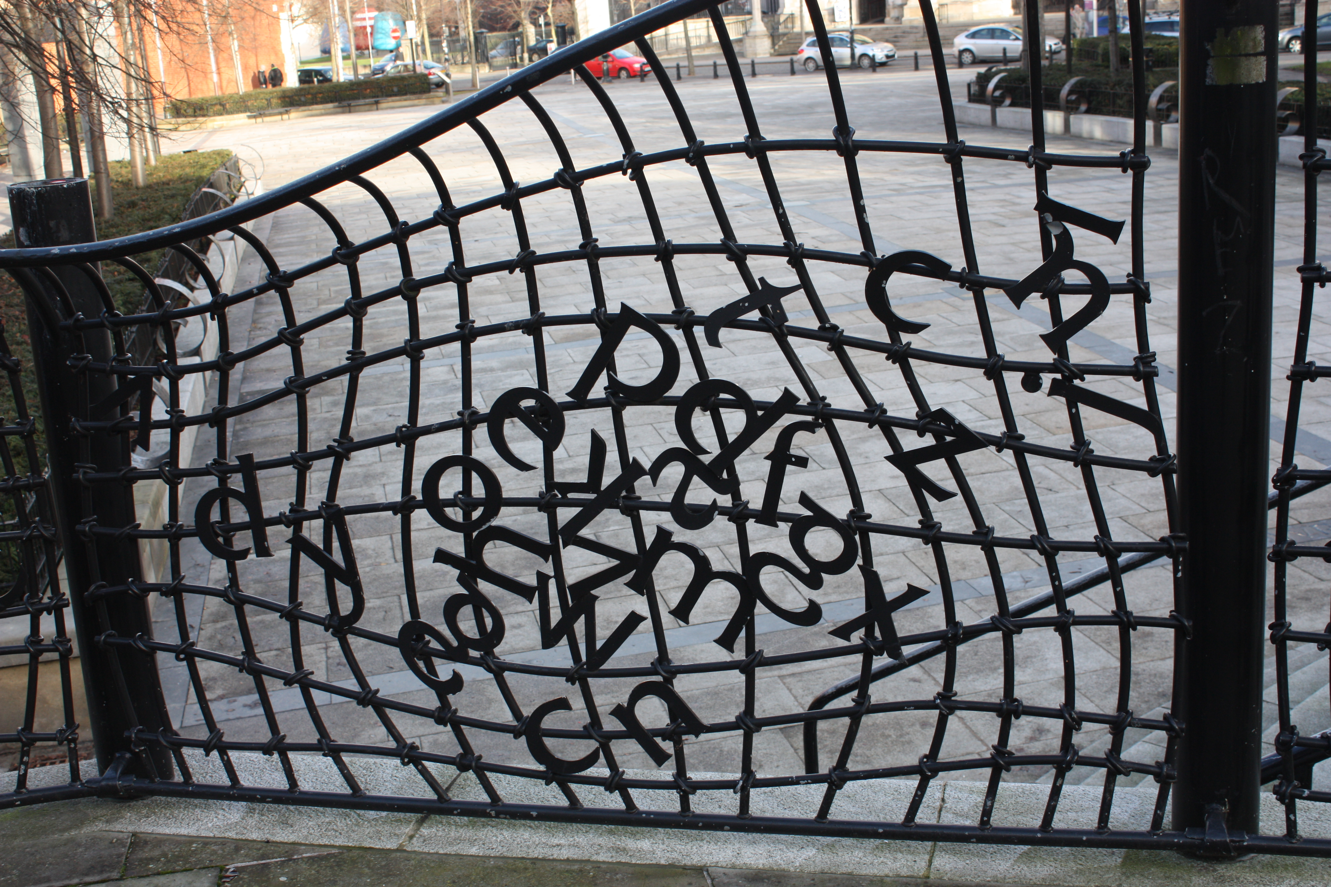 Writer's Square, Donegall Street, Belfast, Northern Ireland, January 2011